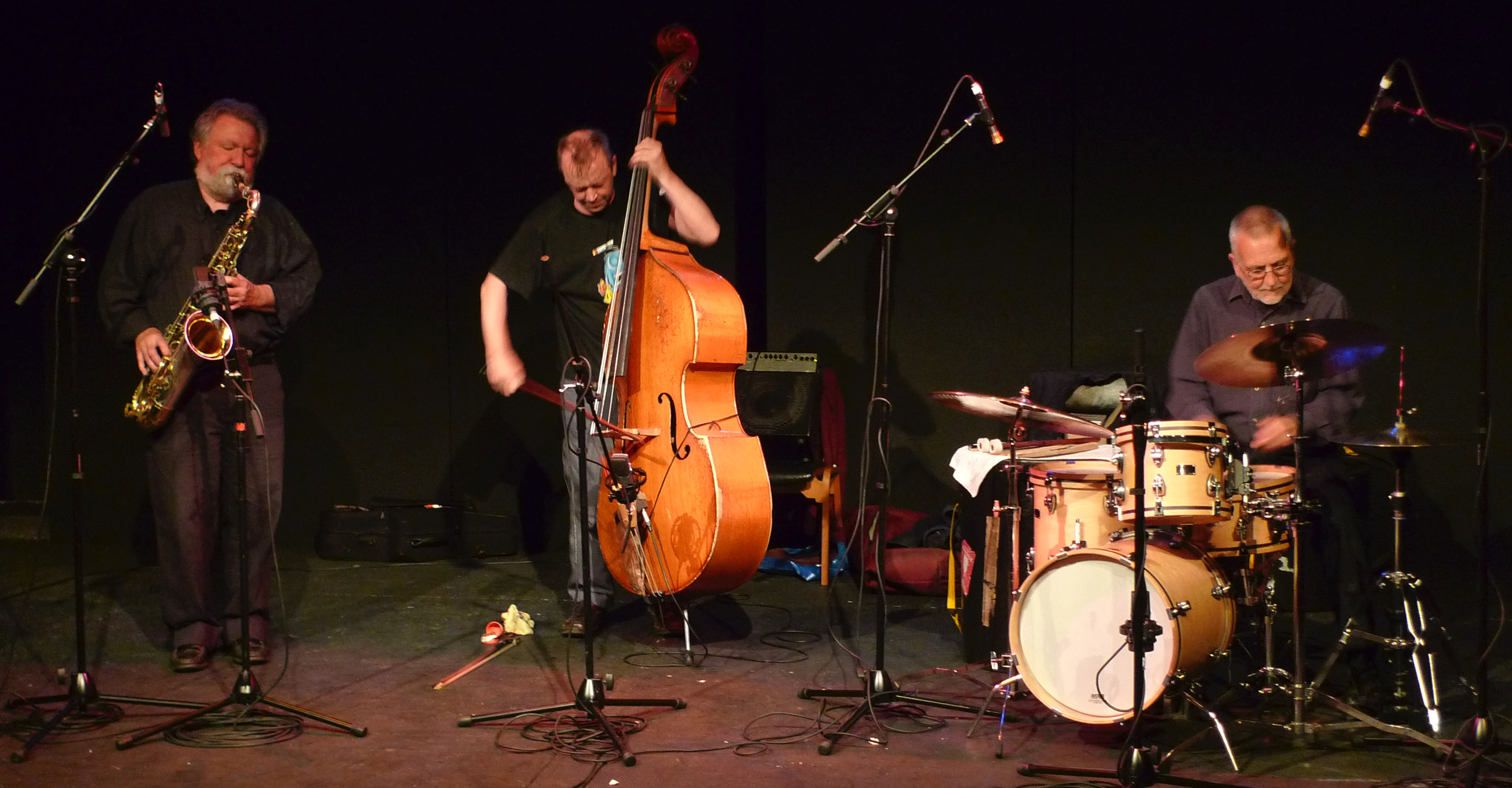 Evan Parker/John Edwards/Eddie Prévost @ the Network Theatre, London 2011